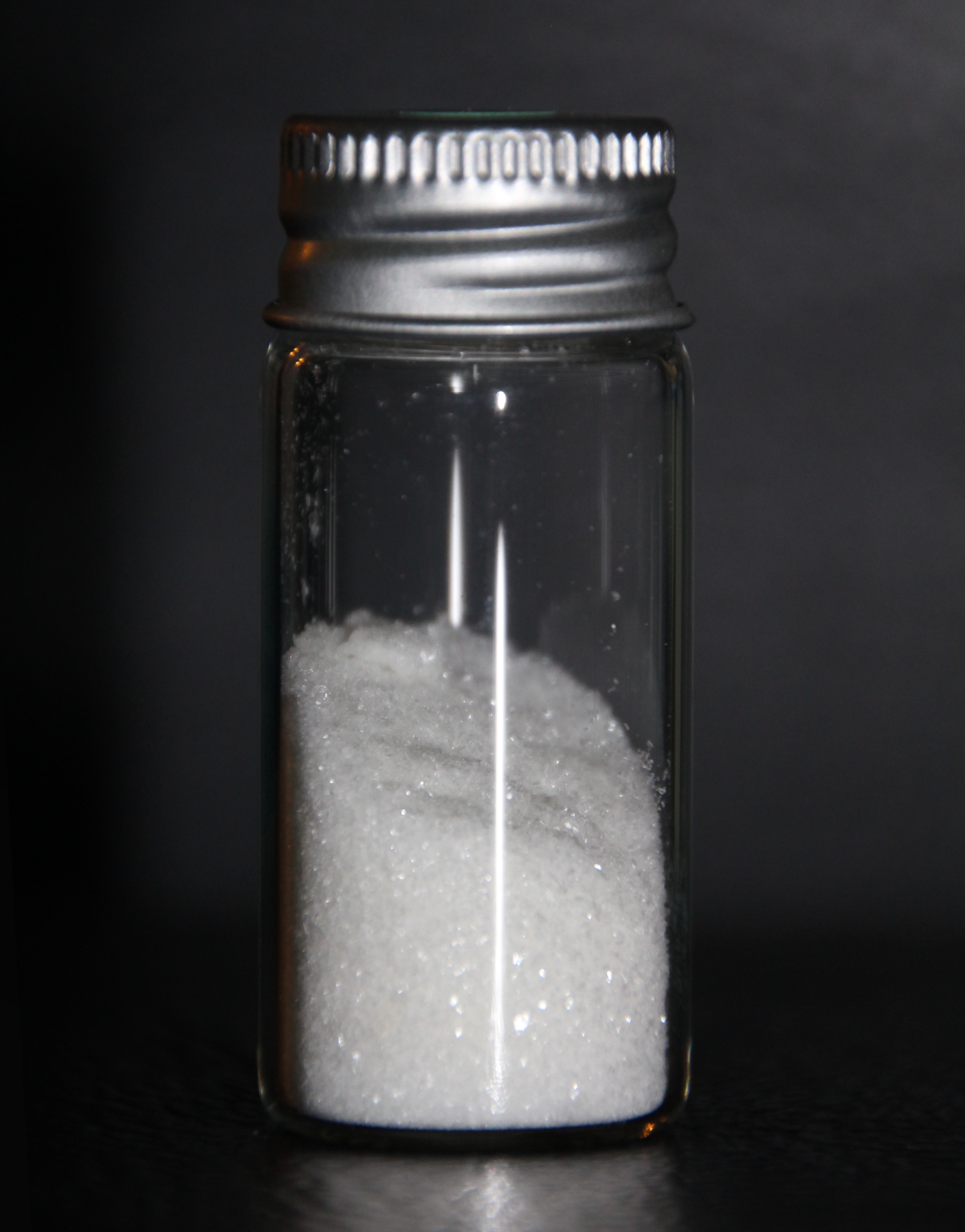 Sample of Ethylenediaminetetraacetic acid disodium salt